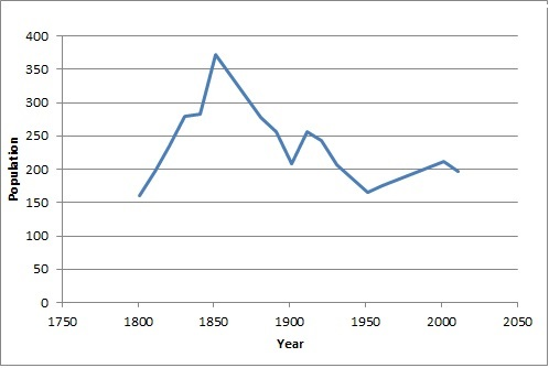 Total population of Shottisham Civil Parish, Suffolk, as reported by the Census fo Population from 1801 to 2011